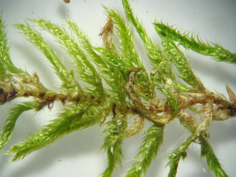 Zypressen-Schlafmoos (Hypnum cupressiforme), Habitus, etwa 10x vergr.